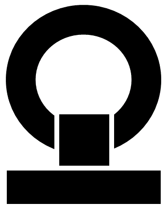 Logo of the Reichswerke Hermann Goring, est. 1937. Although the organization was liquidated in 1945, the logo has been in use up to 1980s. This logo is now used by Salzgitter Maschinenbau AG [1]